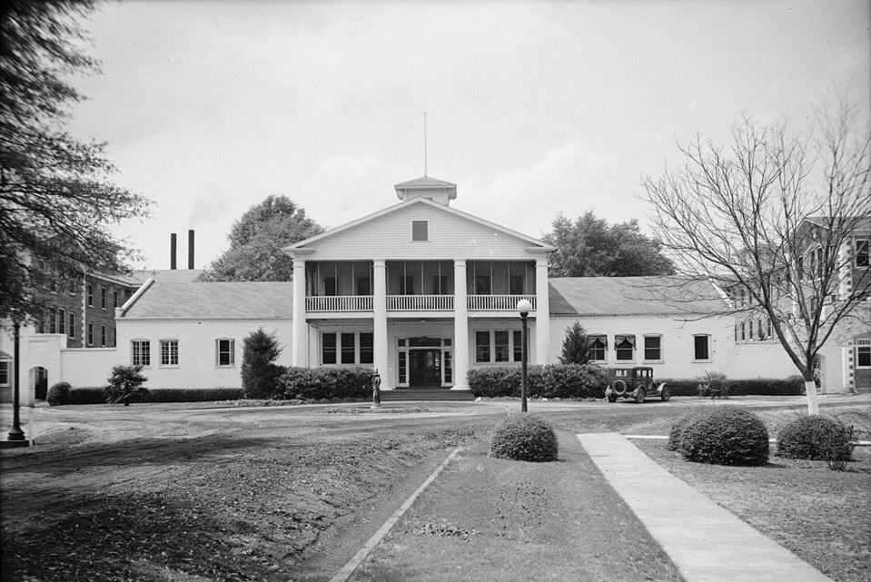 Mount Vernon Arsenal, Administration Building, Old Saint Stephens Road (County Road 96), Mount Vernon, Mobile County, AL.